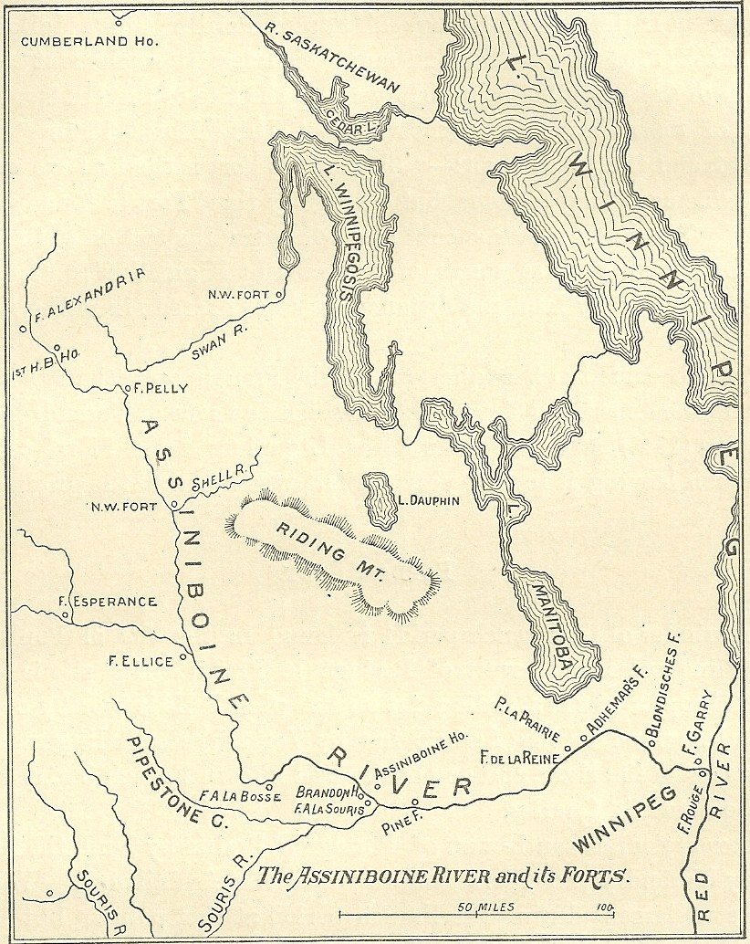 Assiboine River Canada Fur Trading Posts